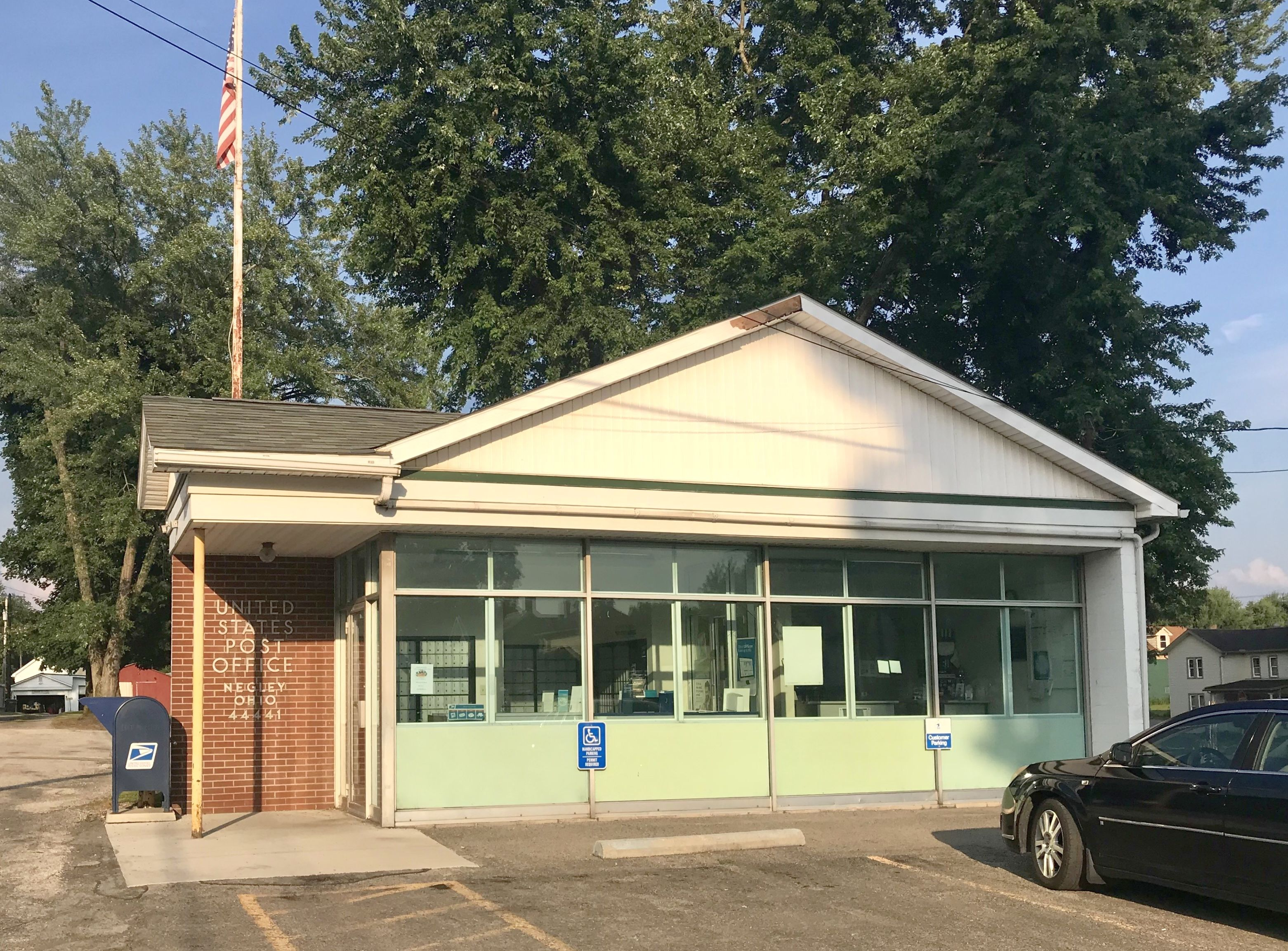 Negley, OH Post Offfice